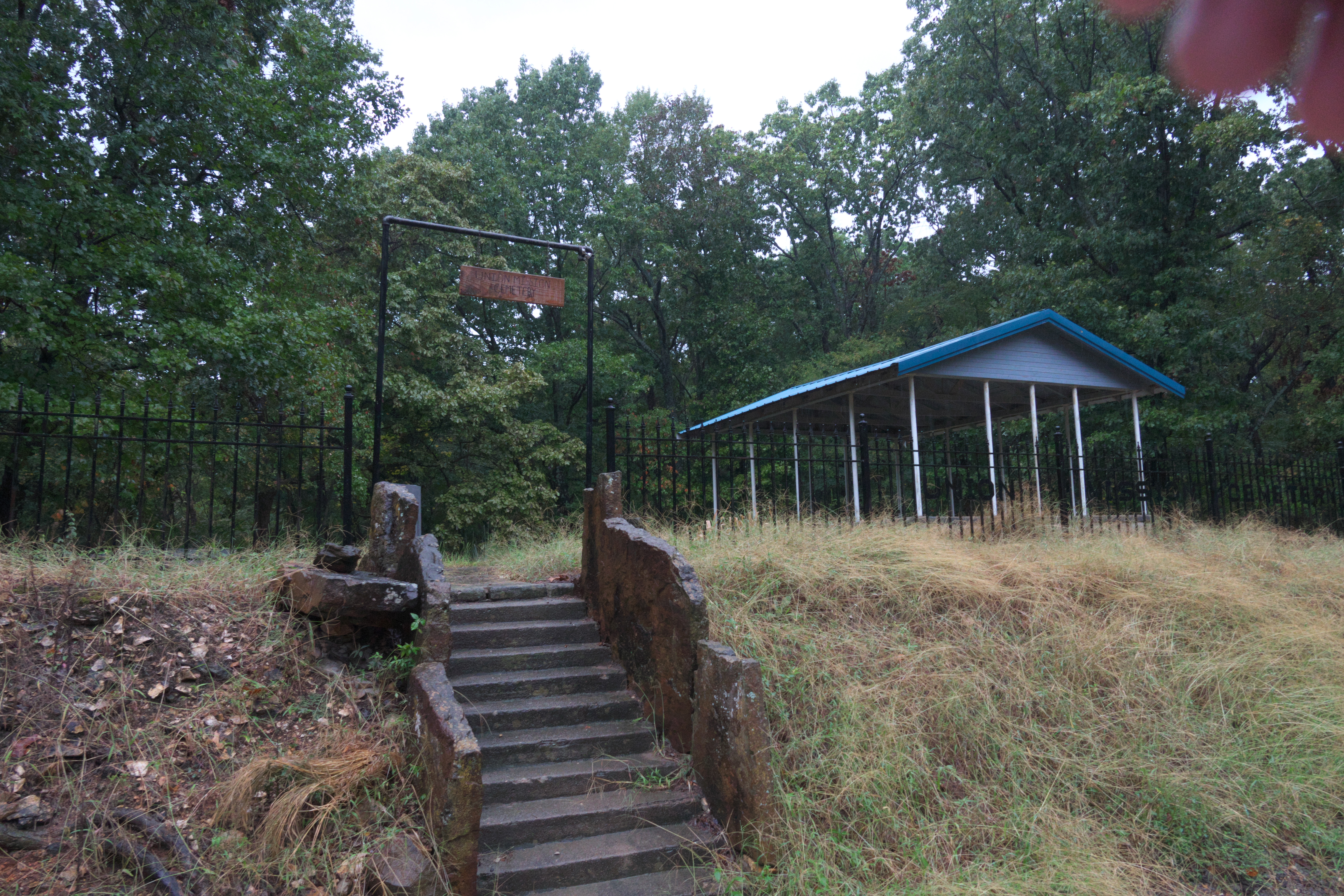 Union Mission Cemetary, near Mazie, Oklahoma